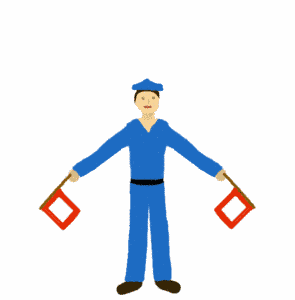 Letter N of the nautical semaphore flag signalling system